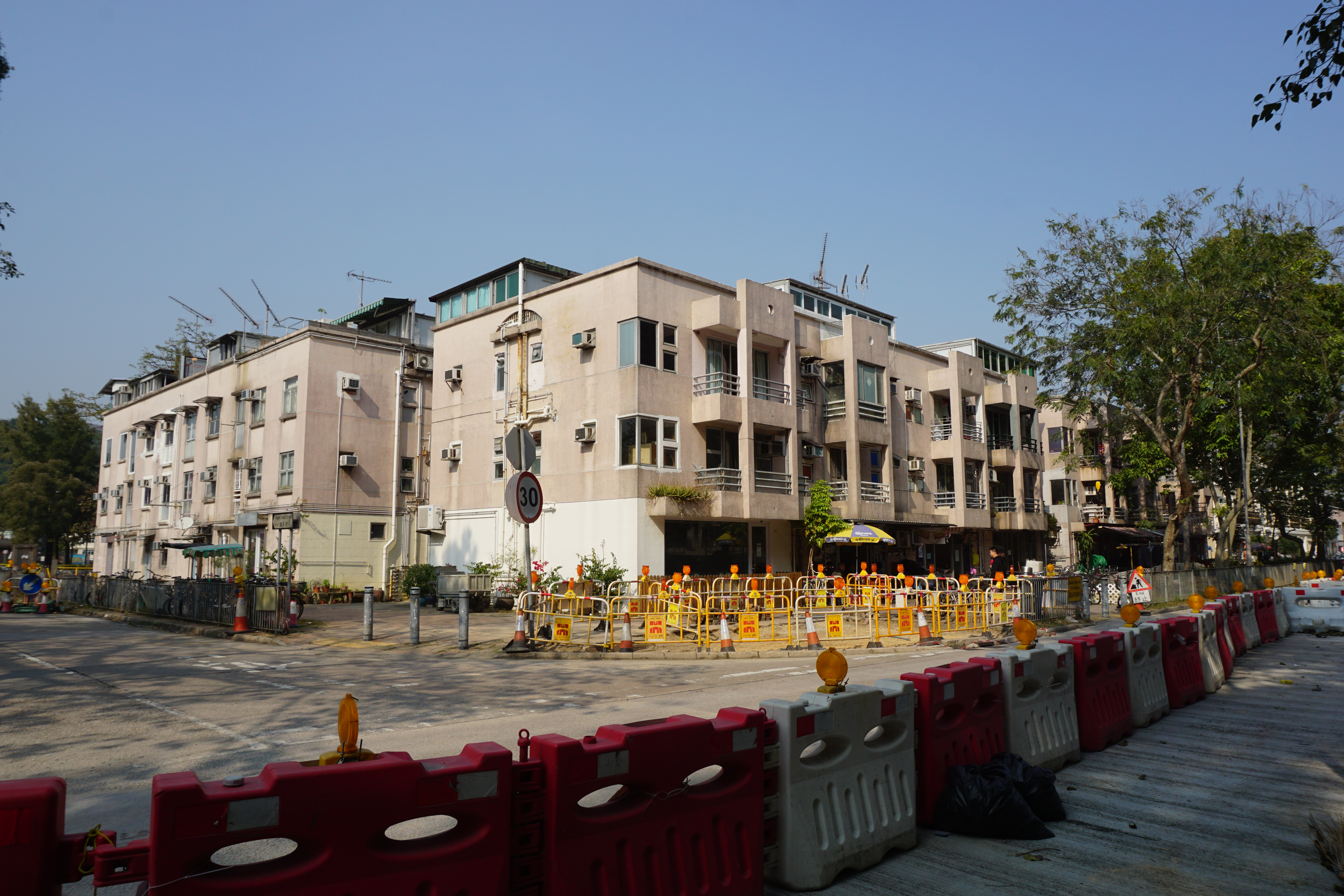 Ngan King Centre in Mui Wo, Hong Kong.